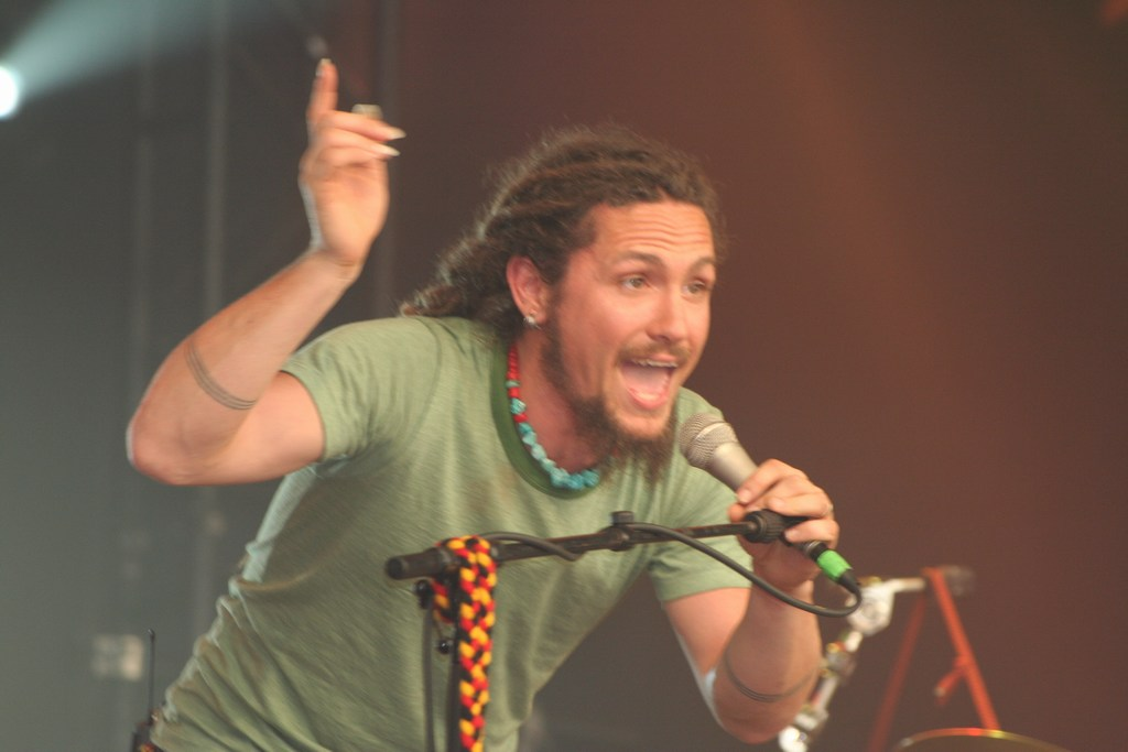 Australian musician John Butler performing with his trio.